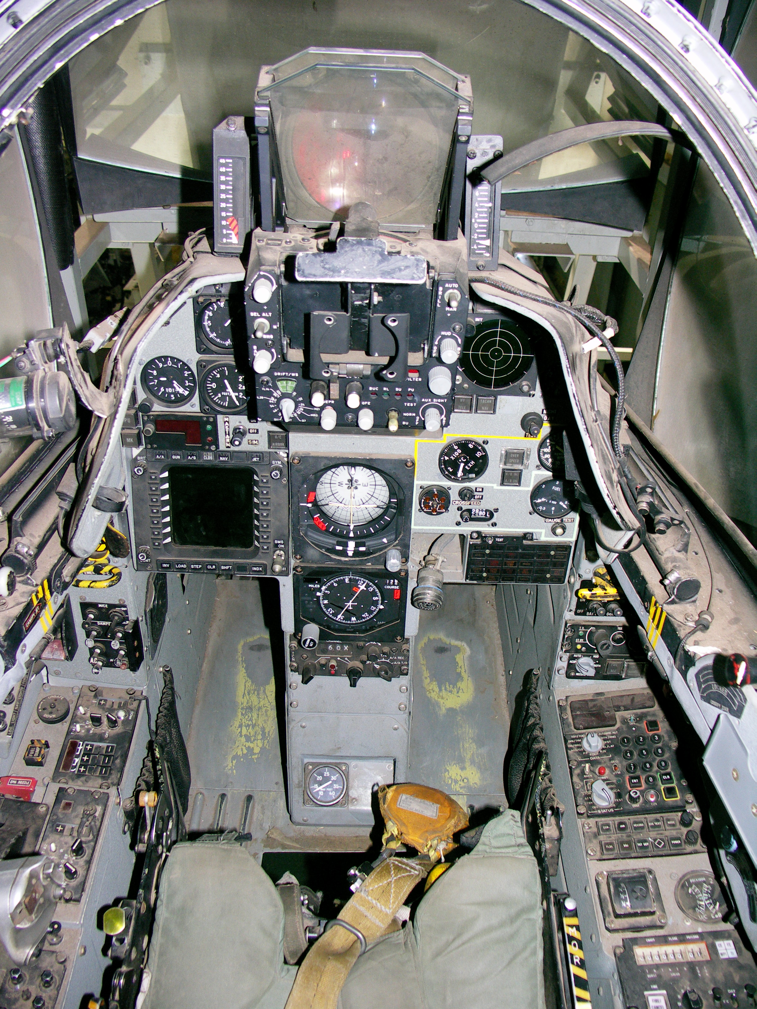 Cockpit of the Cheetah D fligh simulator. South African Air Force Museum at Swartkop.